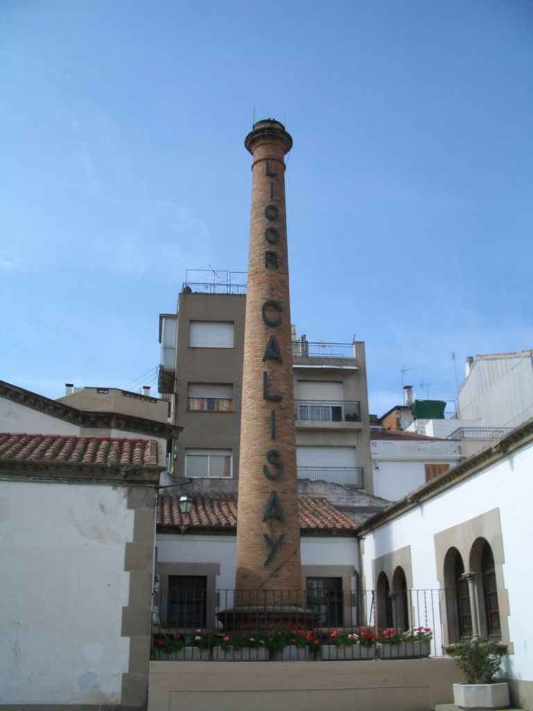 Calisay's chimney, Arenys de Mar (Catalonia)